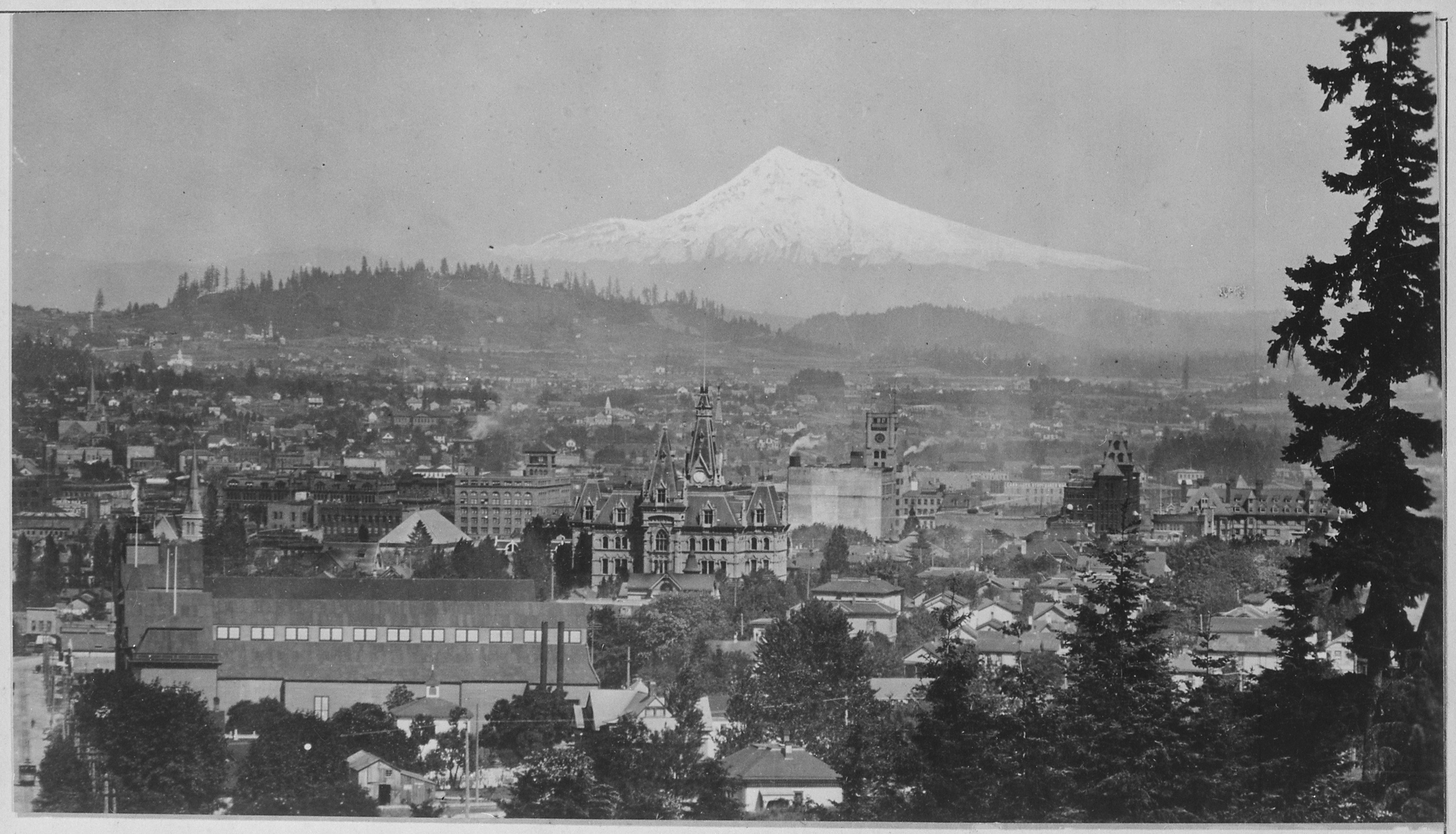 Scope and content: Mount Hood in the background.